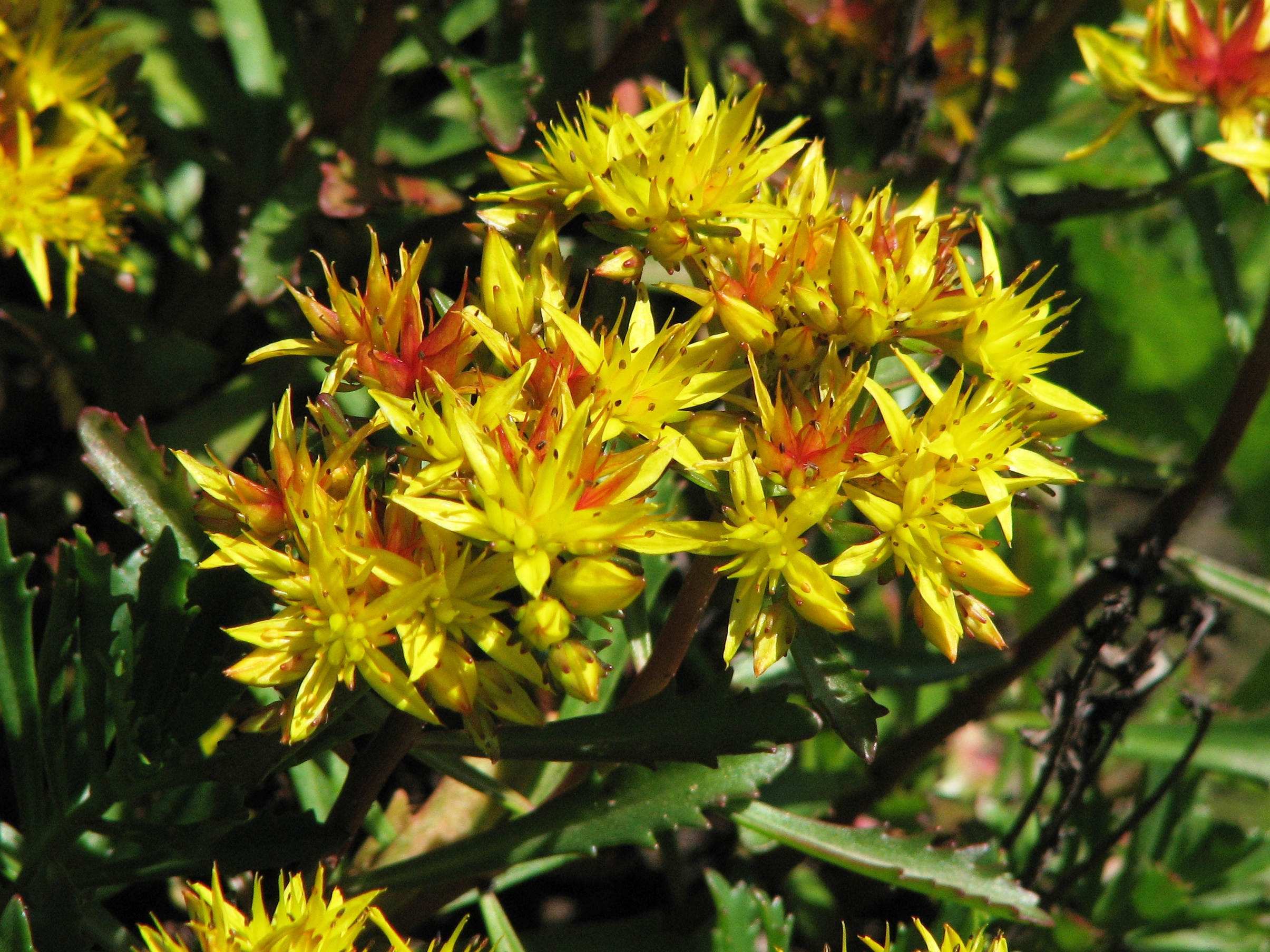 Phedimus middendorffianus, syn. Sedum middendorffianum. From the collection of the Main Botanical Garden of Academy of Sciences in Moscow (perennials plot).